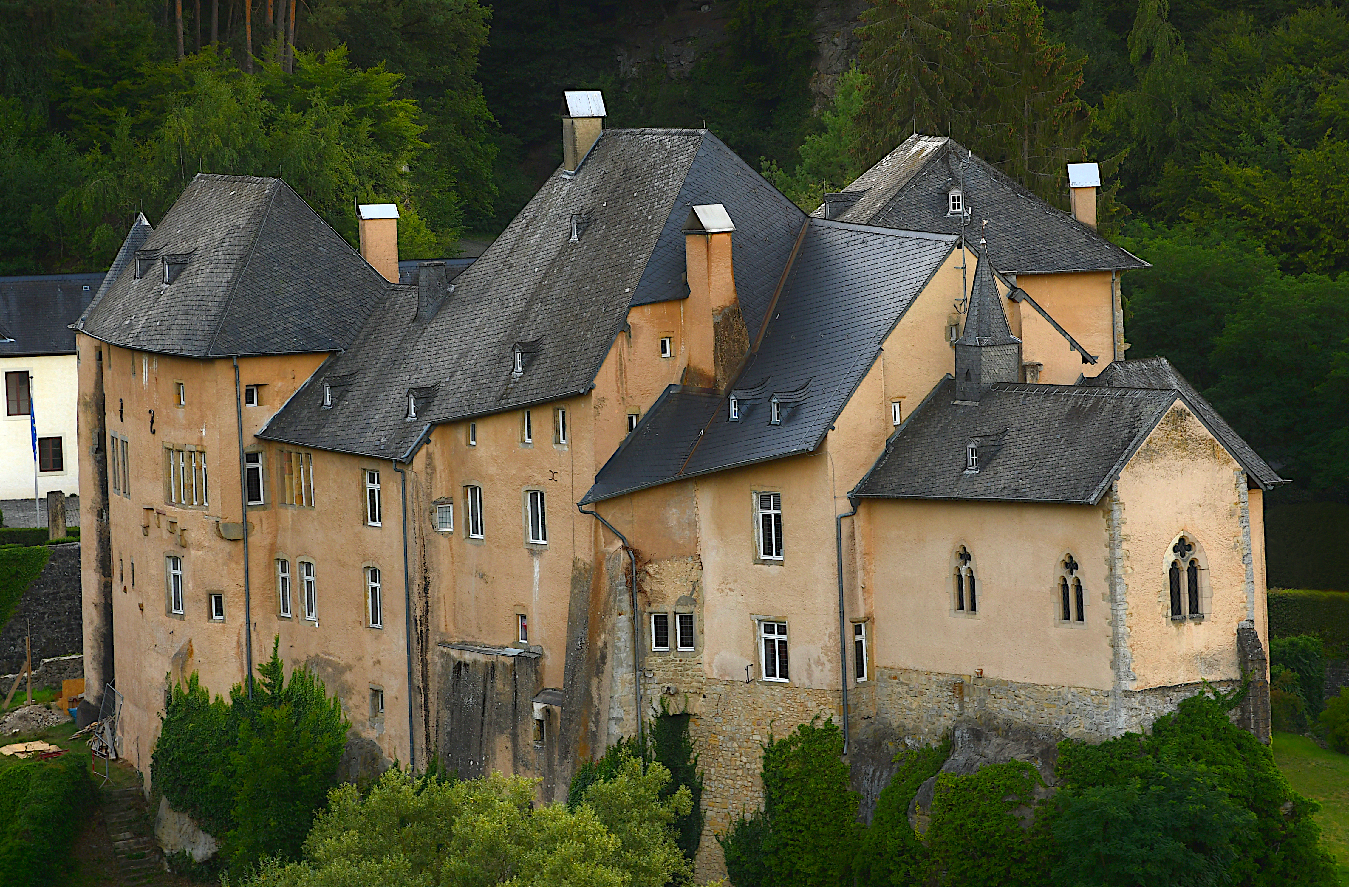 Bourglinster Castle